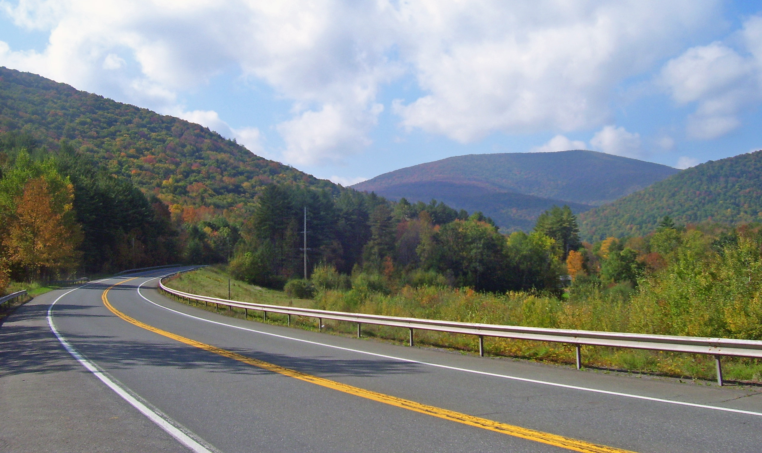 Balsam Mountain, one of the Catskill High Peaks, seen from near Big Indian, NY, USA